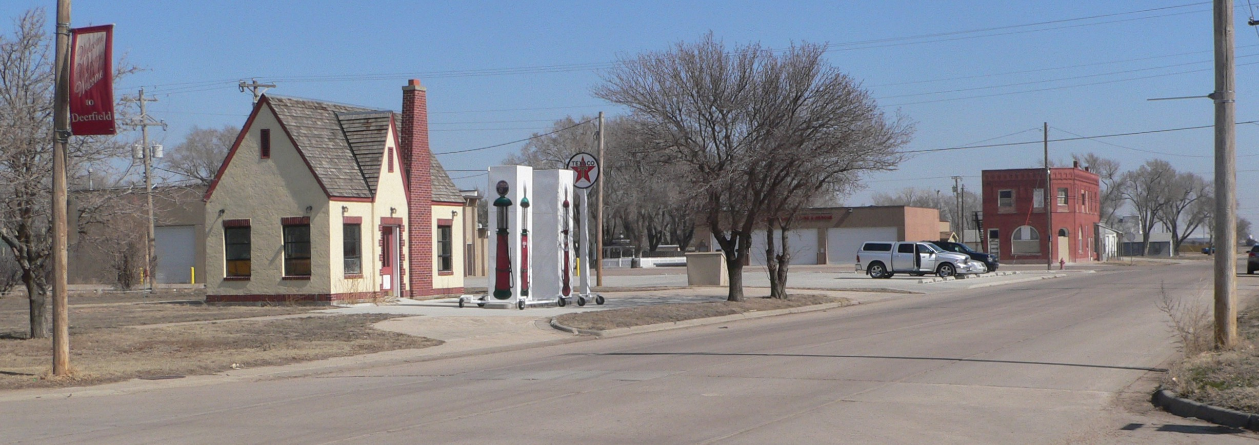 Old Highway 50 in Deerfield, Kansas. Camera is facing northwest from Walnut Street. At left is the Deerfield Texaco Service Station, listed in the National Register of Historic Places.